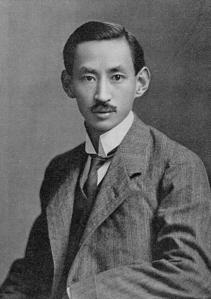 S. Uesugi, Assistant Professor of Public Law in the Imp. University of Tokyo.